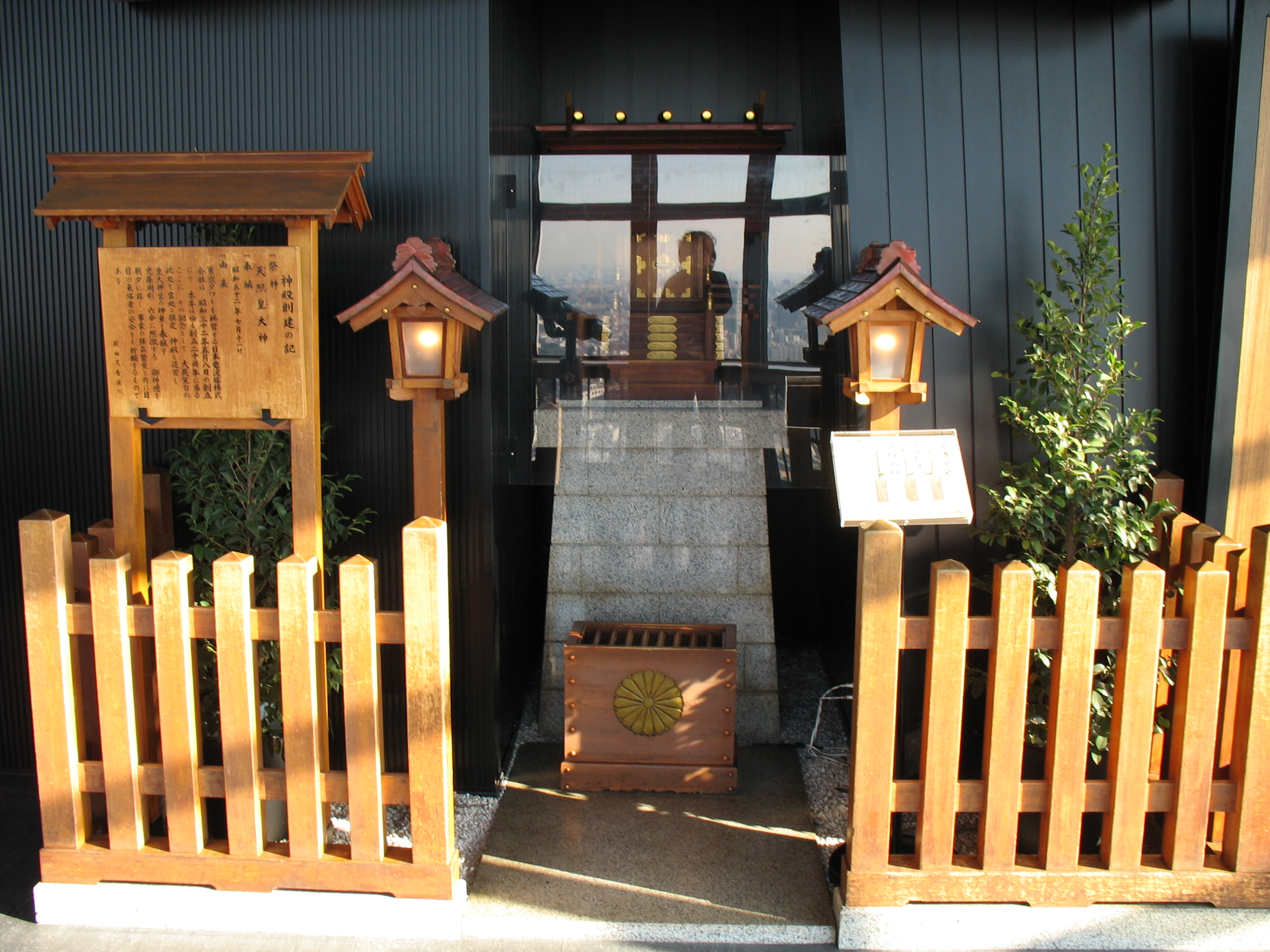 A photo of the Shinto shrine in the Main Observatory in the Tokyo Tower